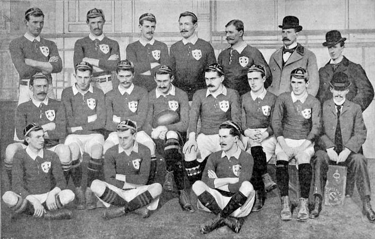 The Ireland national rugby team that played England.